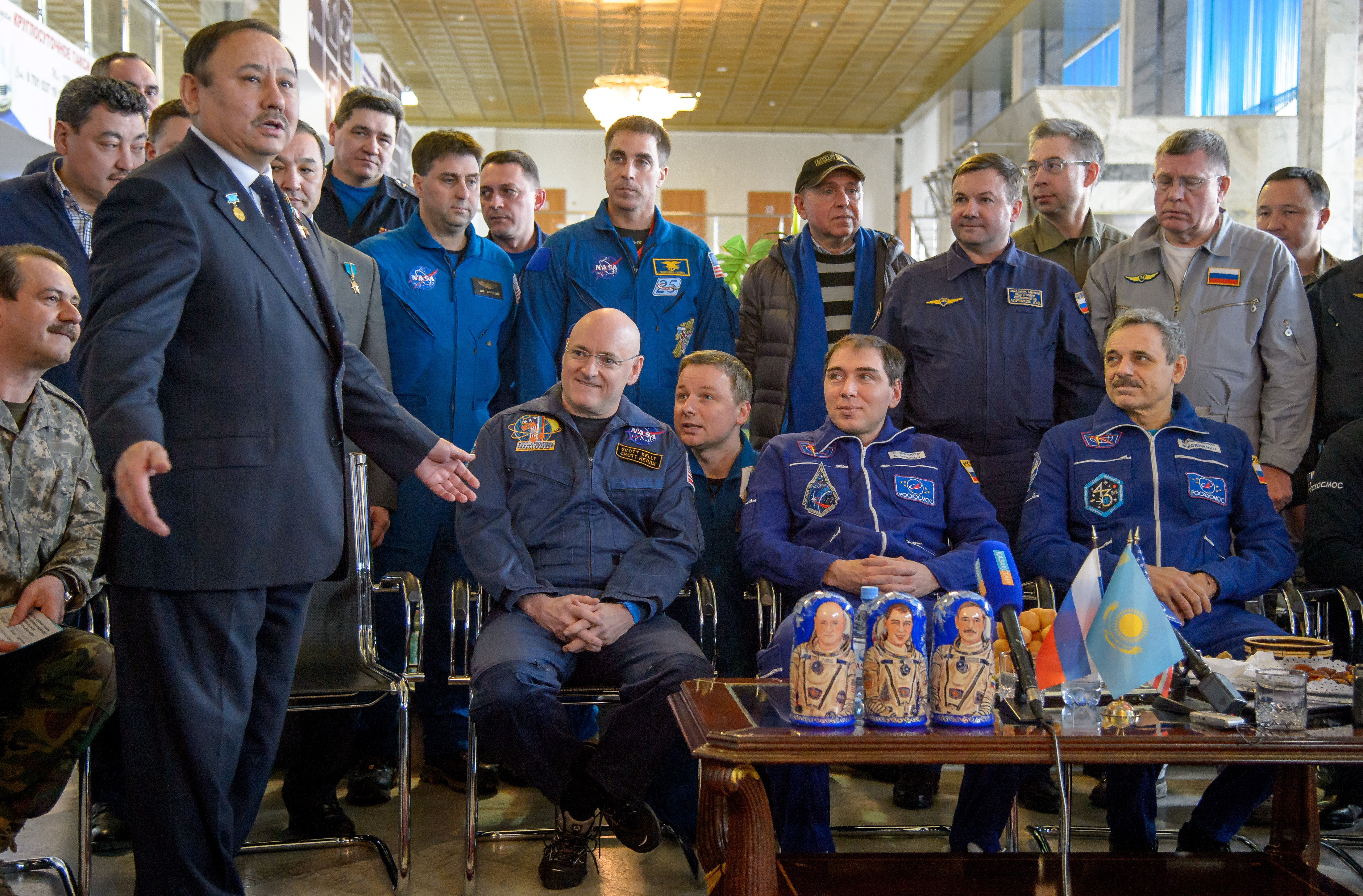 Head of Kazakhstan's National Space Agency, KazCosmos, and former cosmonaut Talgat Musabayev welcomes home Expedition 46 Commander Scott Kelly of NASA, left, and Russian cosmonauts Sergey Volkov, center, and Mikhail Kornienko at the Zhezkazgan Airport in Kazakhstan on Wednesday, March 2, 2016 (Kazakh time). Kelly and Kornienko completed an International Space Station record year-long mission to collect valuable data on the effect of long duration weightlessness on the human body that will be used to formulate a human mission to Mars. Volkov returned after spending six months on the station.